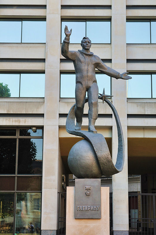 Statue of Gagarin in London, near Admiralty Arch, unveiled July 14, 2011